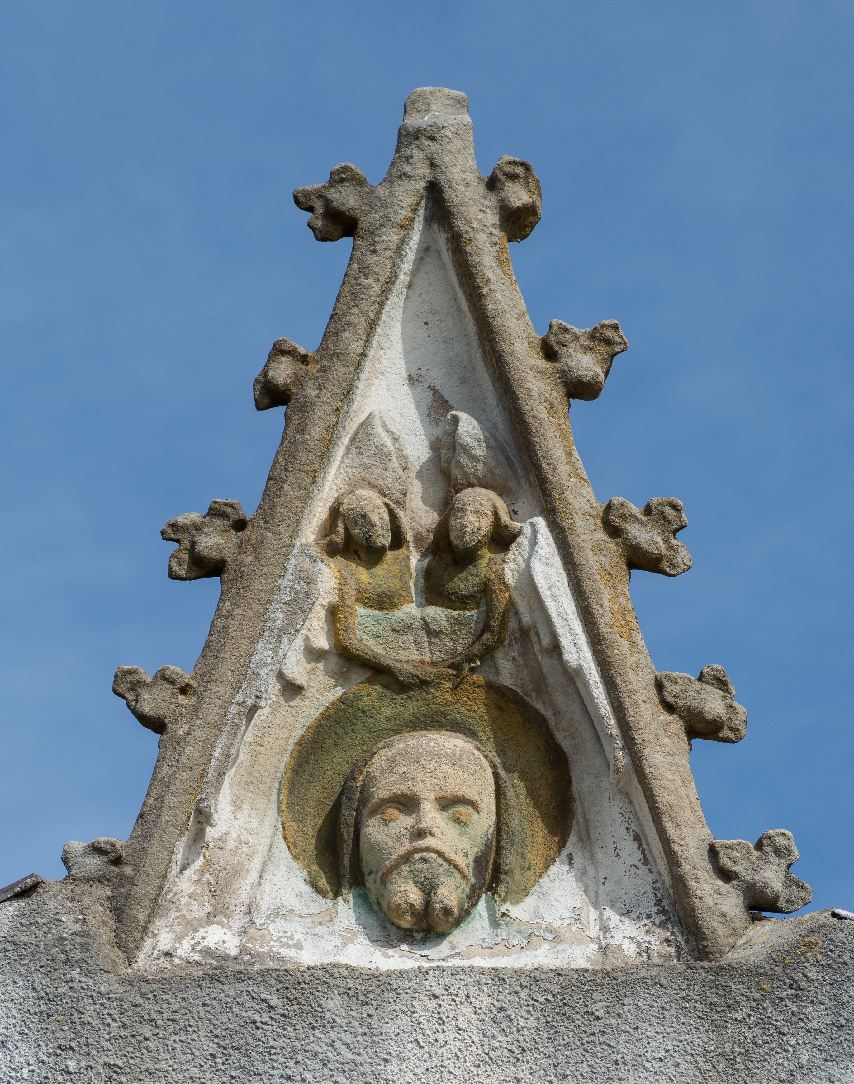 Saint Mary Magdalene Church in Ścinawka Średnia